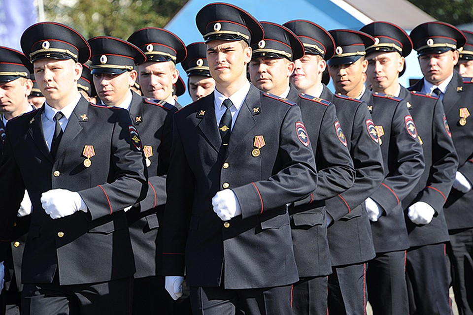 police mvd